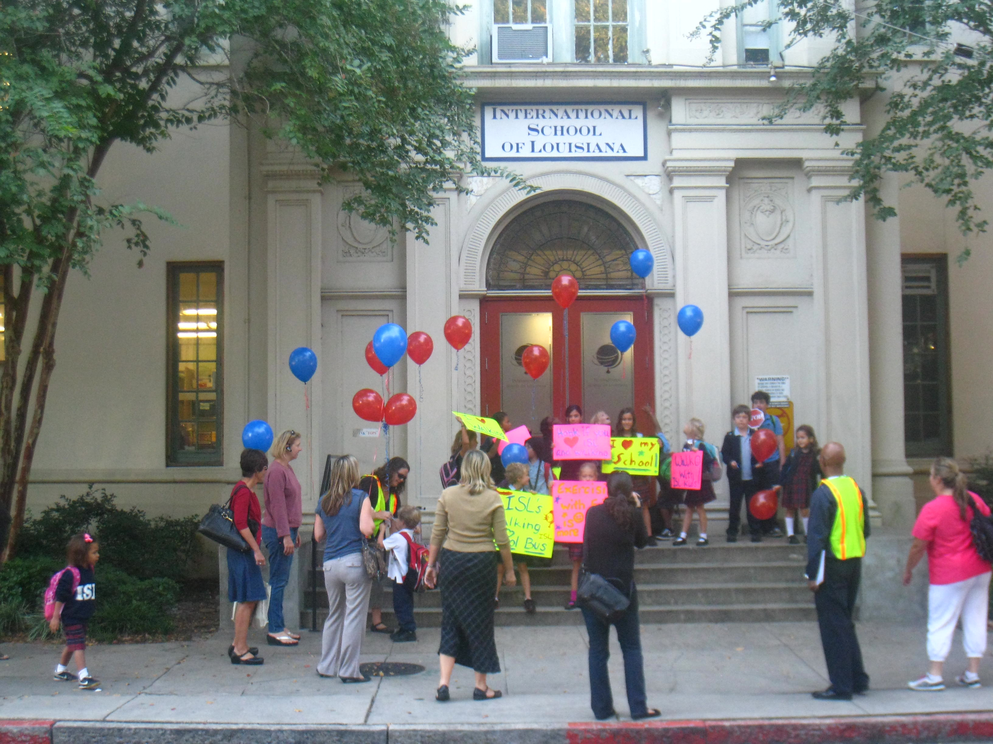 International School of Louisiana, Oct 5 2011